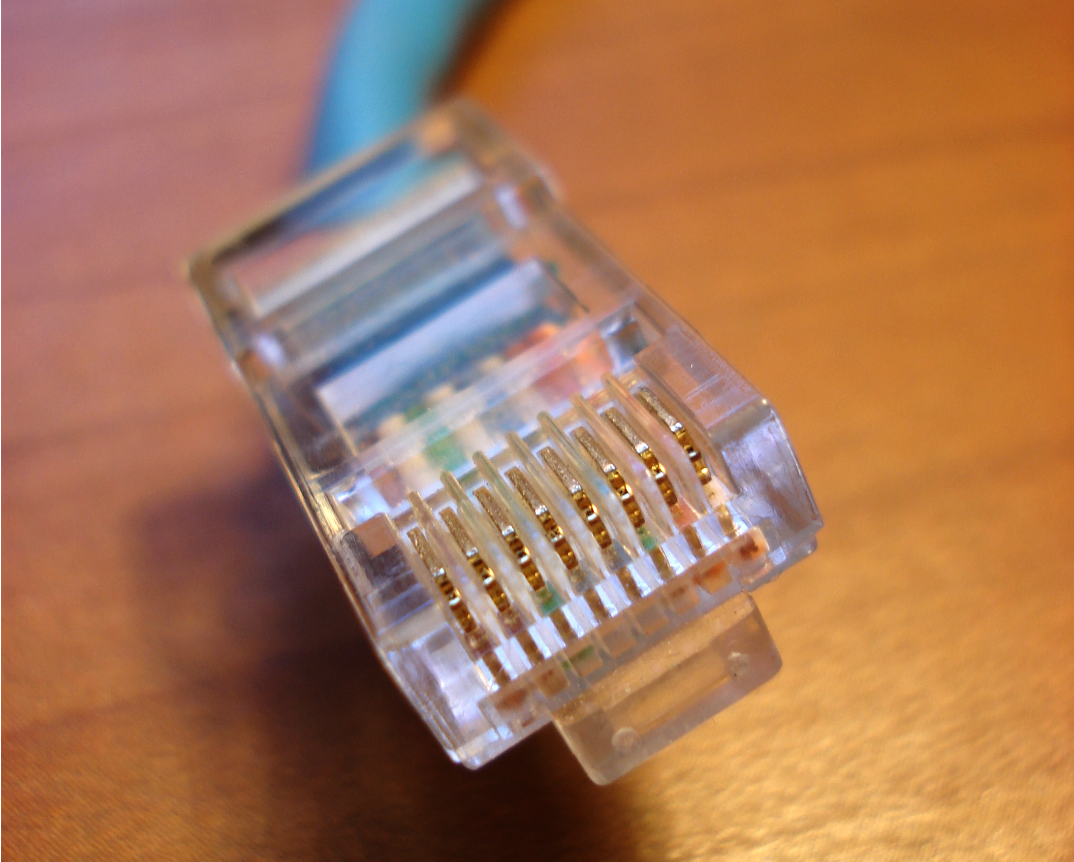 Your computer uses this to talk to other computers. Its true!